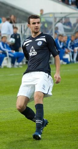 Oleksandr Volovyk, defender for FC Metalurh Donetsk